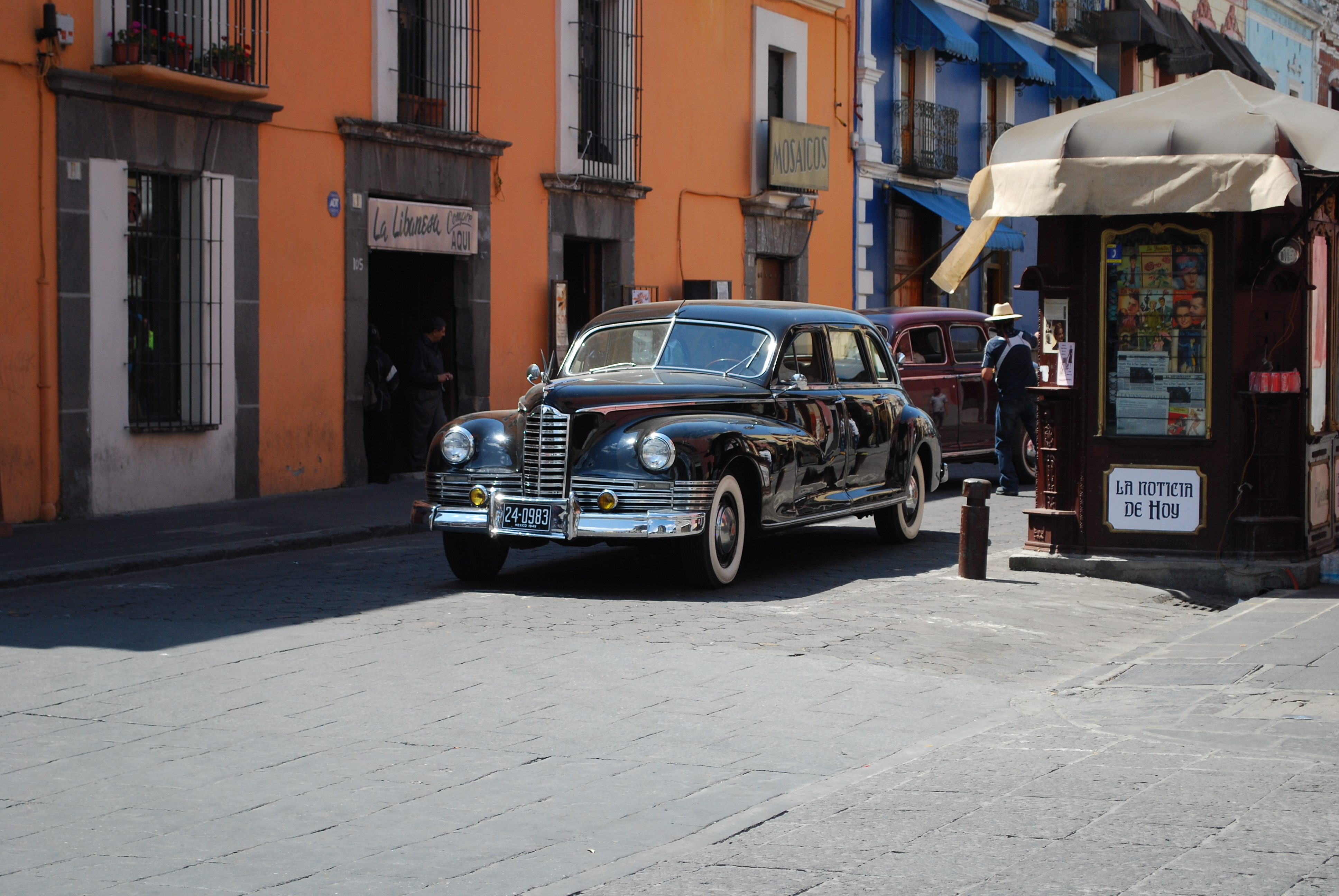 1946-1947 Packard Clipper Custom Super Model 2126; 7-passenger Sedan or limousine (Wheelbase 148 in.) on 5 Poniente Street in Puebla, Mexico